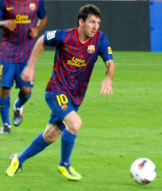 Lionel Messi in the Match FC Barcelona and santos in Barcelona, Catalonia 2011.